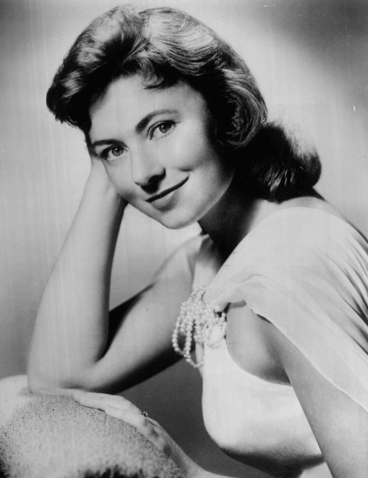 Photo of Marion Ross from the television program Mrs. G. Goes to College. Ross played Susan, the daughter of Sarah Green (Gertrude Berg).